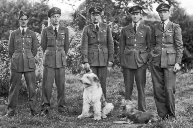 Pilots of No. 161 (Special Duties) Squadron RAF standing in the garden of 'The Cottage' at Tangmere, Sussex. They are (left to right): Flying Officer J A McCairns, Squadron Leader Hugh Verity, Group Captain Percy Charles "Pick" Pickard (Squadron Commander), Flight Lieutenant Peter Vaughan-Fowler and Flying Officer Frank "Bunny" Rymills. In front of Pickard sits his sheepdog 'Ming', and to the right, Rymill's spaniel 'Henry'.